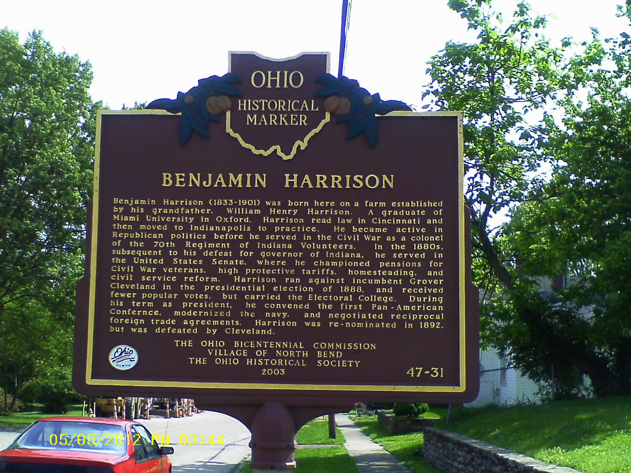 Benjamin Harrison birth site marker. North Bend, OH